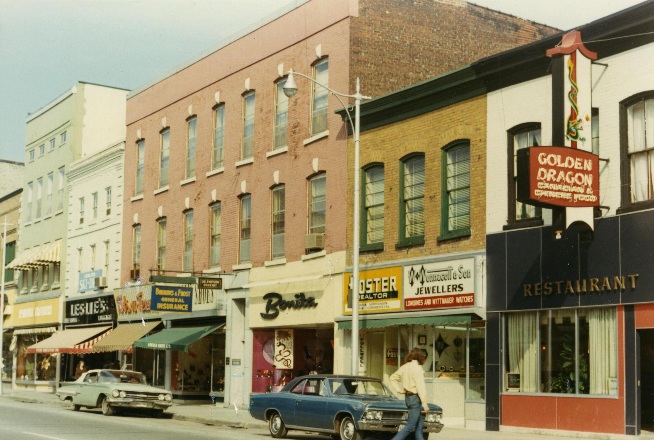 245-257 Front Street, Belleville, Ontario, showing the Golden Dragon restaurant, Wonnacott & Son jewellers, Foster realtor, Bonita shoes, Burrows & Frost, Lincoln shoes, Tots 'n' Teens, Leslie's shoes and McIntosh Brothers.